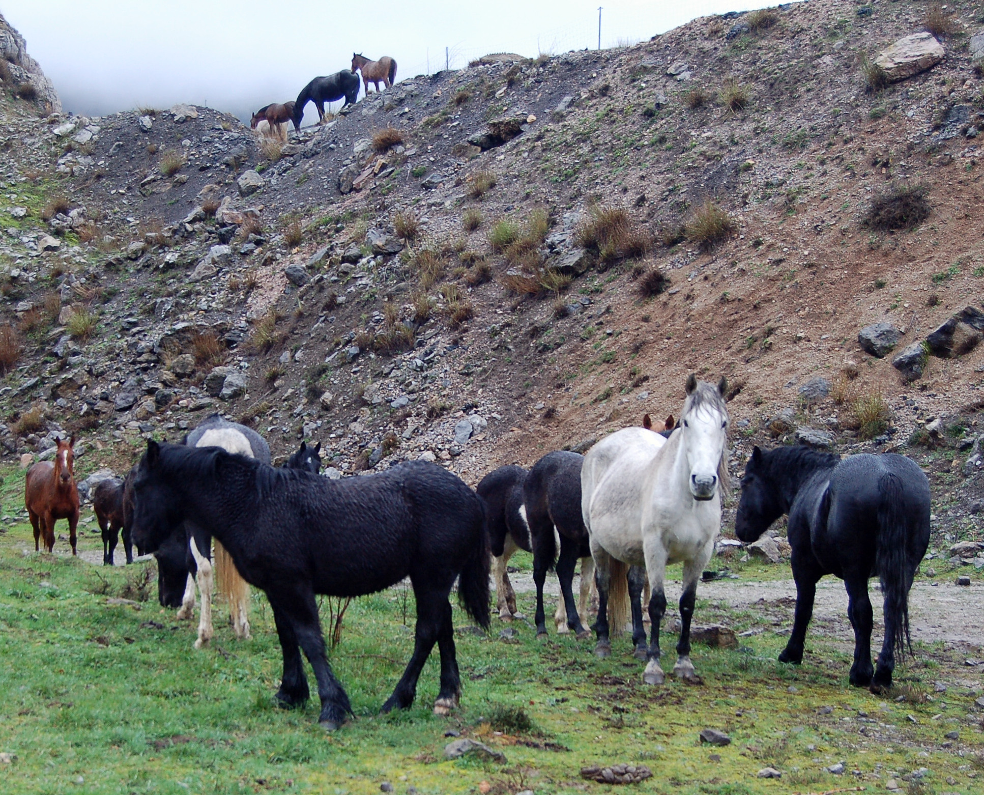 It's not all Asturcon horses : Grey and piebald coat are forbidden, chestnut is very rare for this breed, white markings are very limited. Just black and bay coat are accepted.